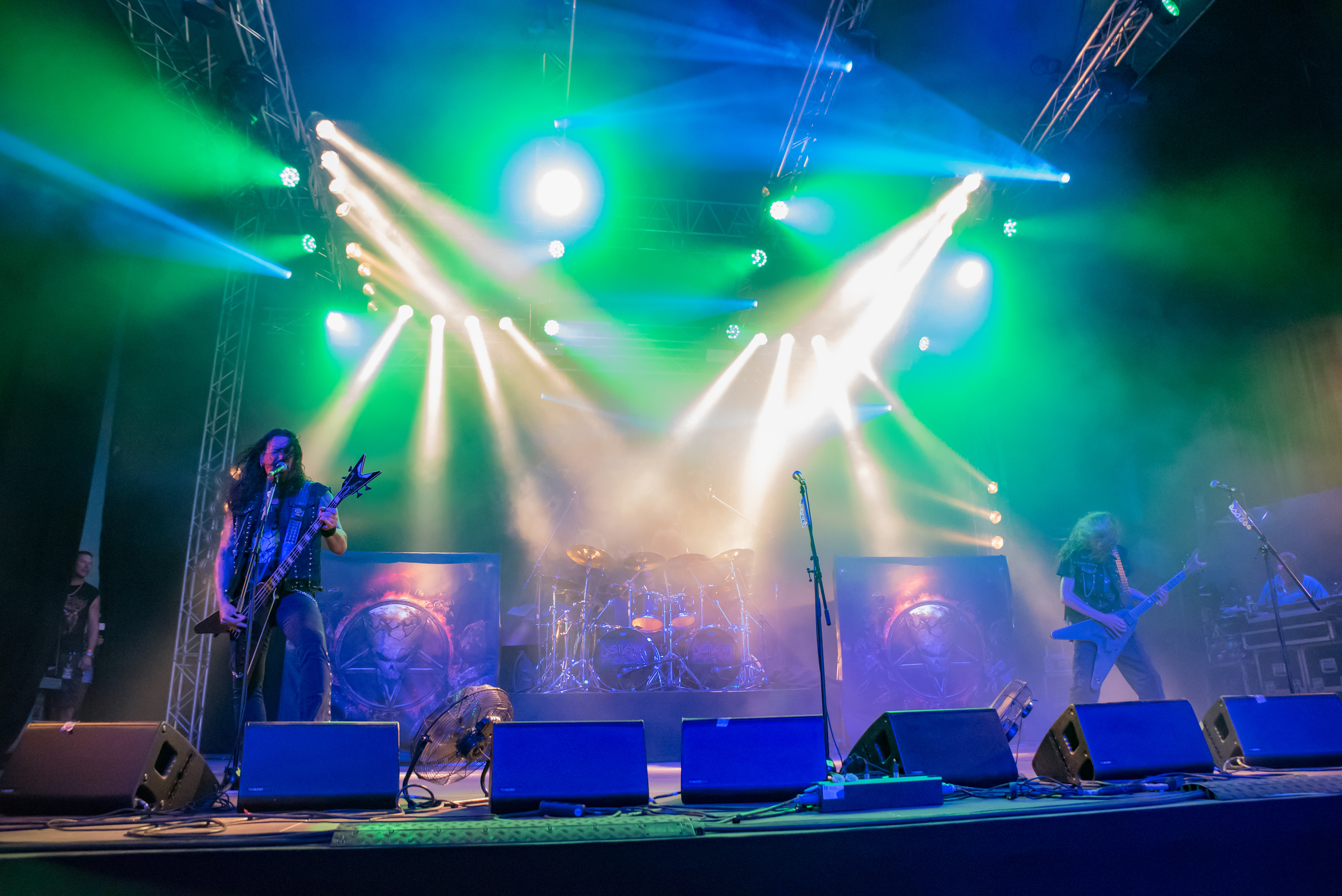 Destruction - Wacken Open Air 2018